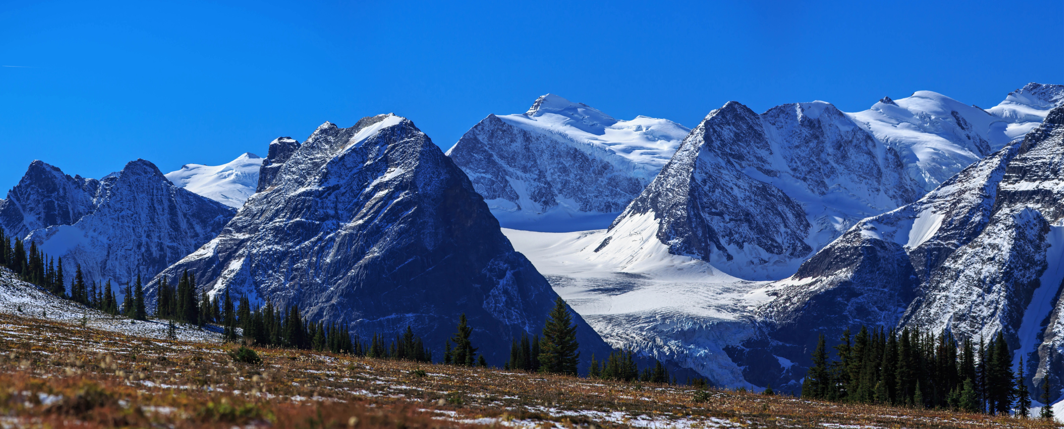 Selkirk Mtns…Mt Wheeler area Panorama from Purcell Lodge